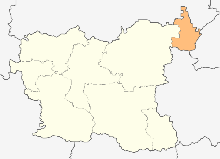 Map of Letnitsa municipality, Lovech Province